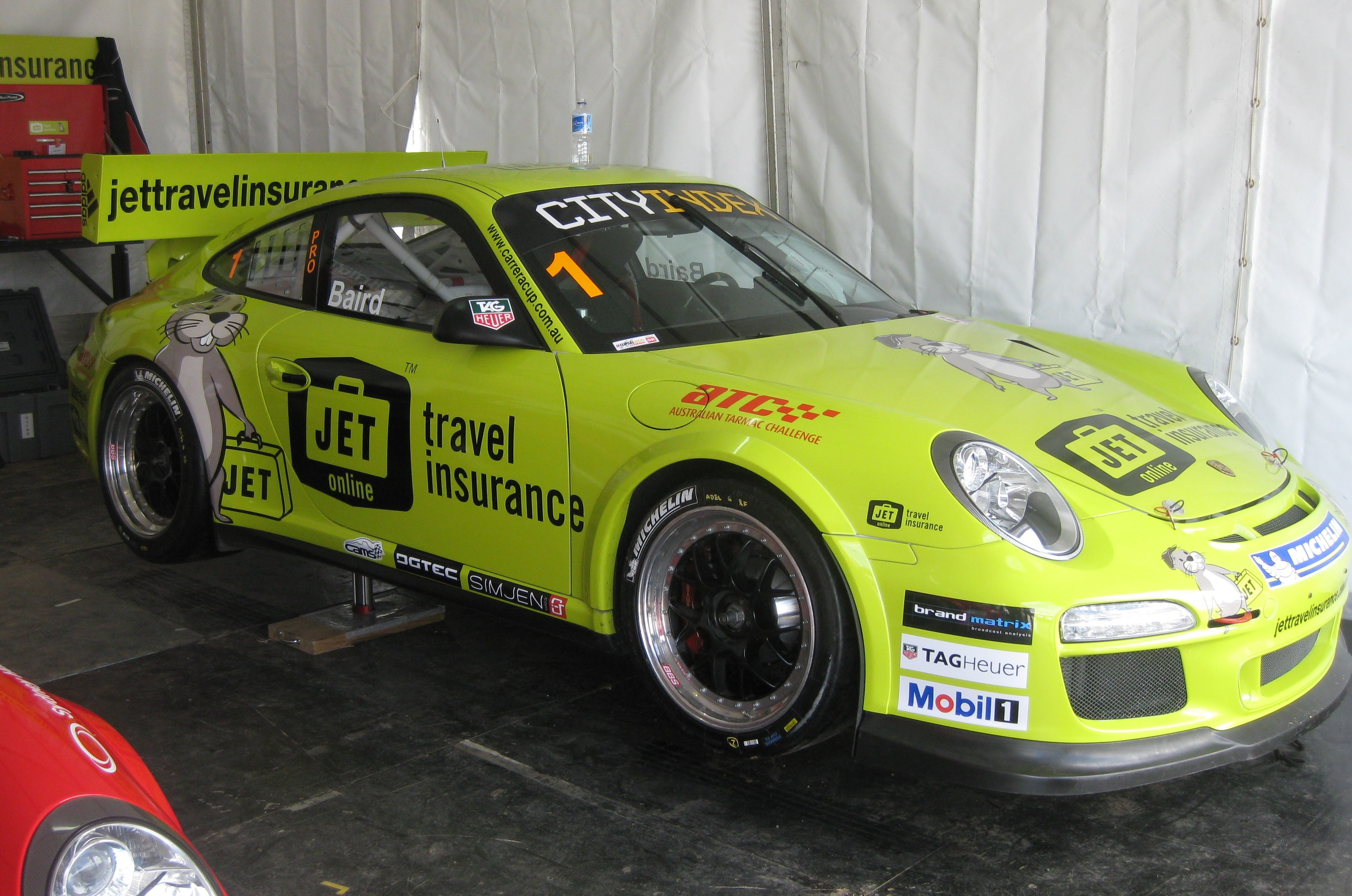 The Porsche 911 GT3 Cup Type 997 of Craig Baird at the opening round of the 2012 Australian Carrera Cup Championship.